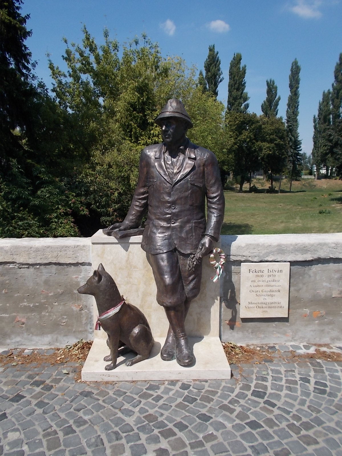 Statue of István Fekete by Ferenc Trischler (Bronze, 2016 works) on the main Castle bridge on the campus of Faculty of Agricultural and Food Science of Széchenyi István University in Magyaróvár neighborhood, Mosonmagyaróvár, Győr-Moson-Sopron County, Hungary.